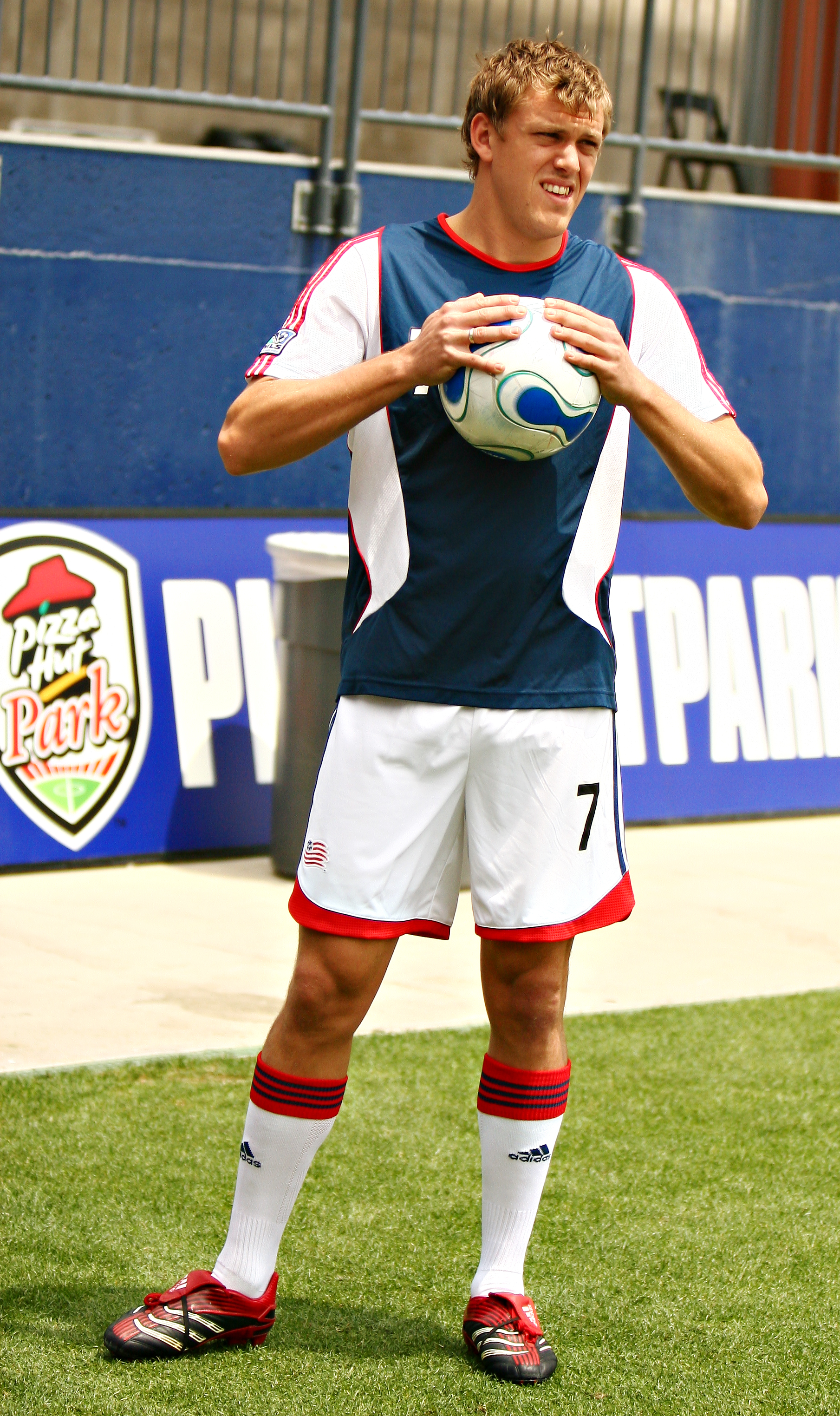 Adam Cristman, American soccer player for the New England Revolution (at time of photo)